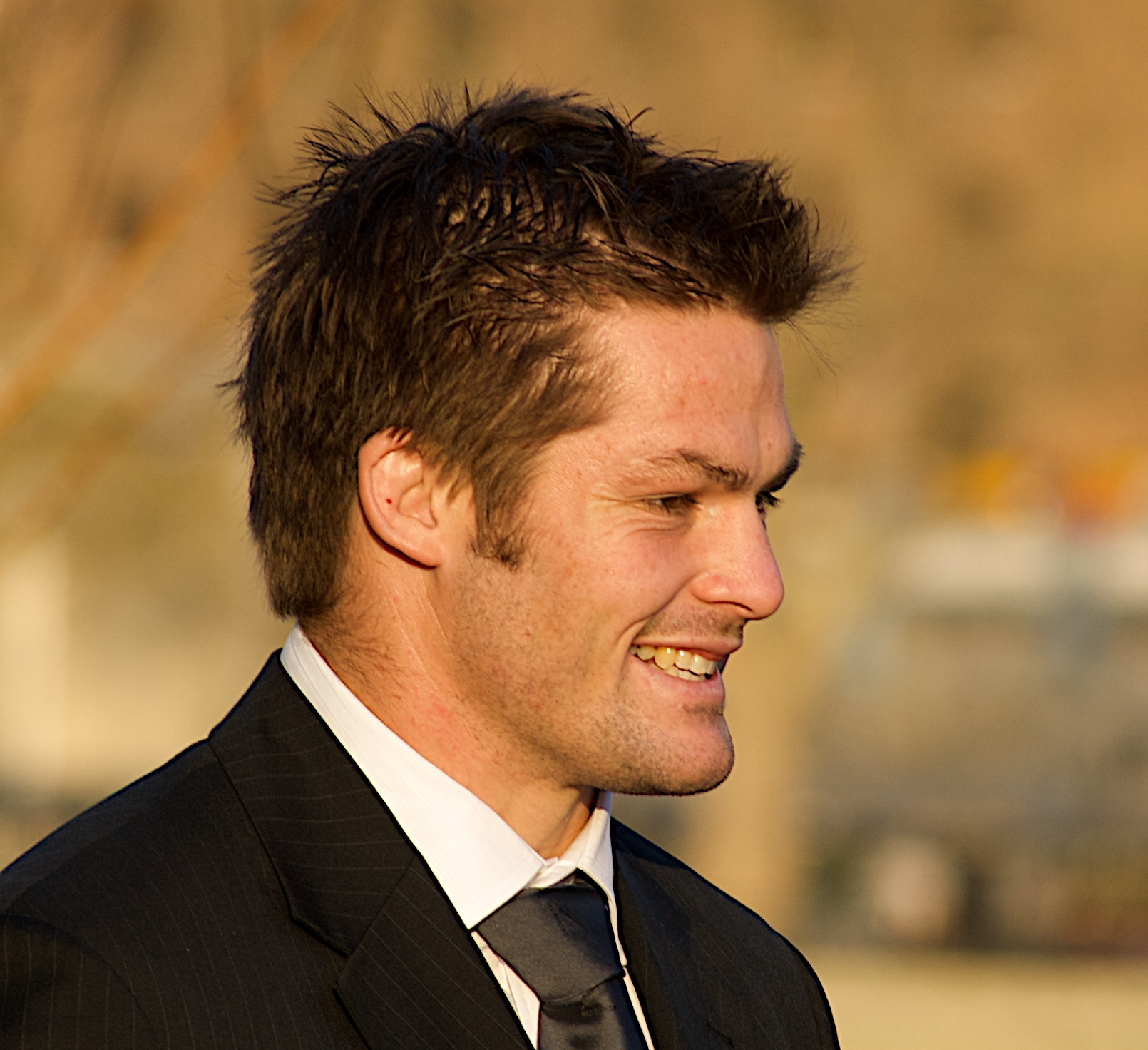 Richie McCaw, New Zealand rugby union player, in London.